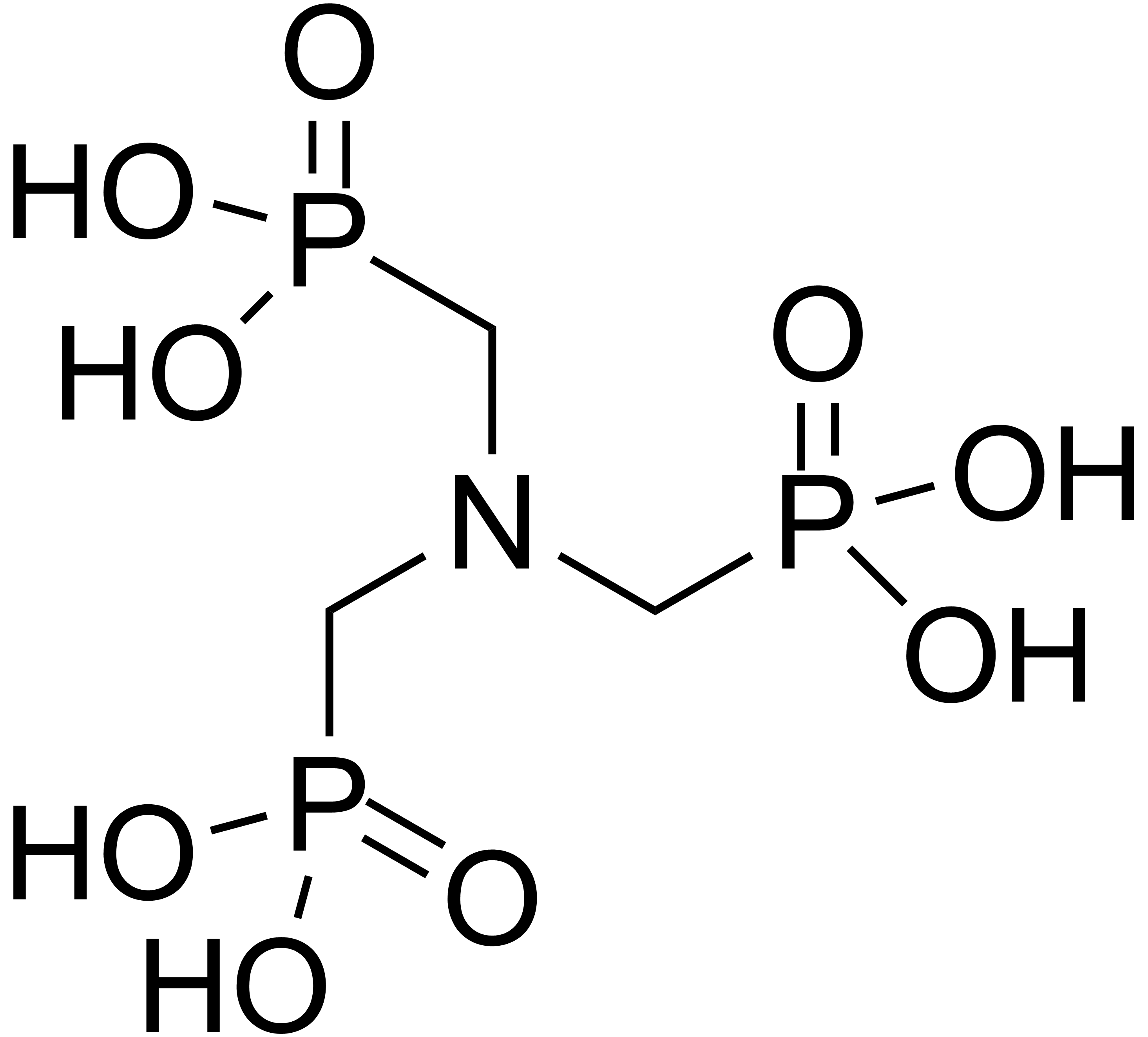 chemical structure of ATMP - aminotris(methylenephosphonic acid)